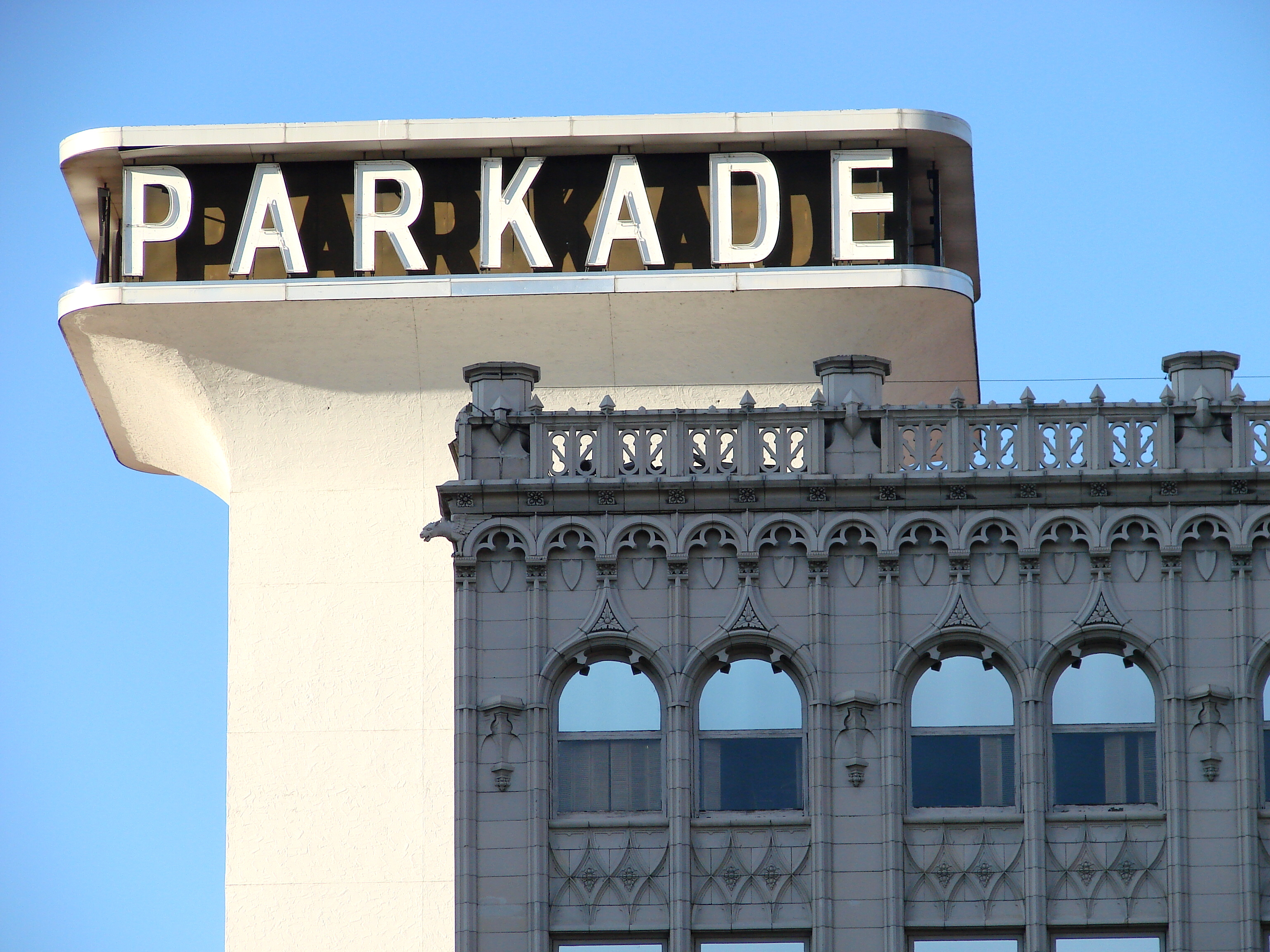 Parkade (designed by Warren C. Heylman) and historic facade - Spokane WA - USA